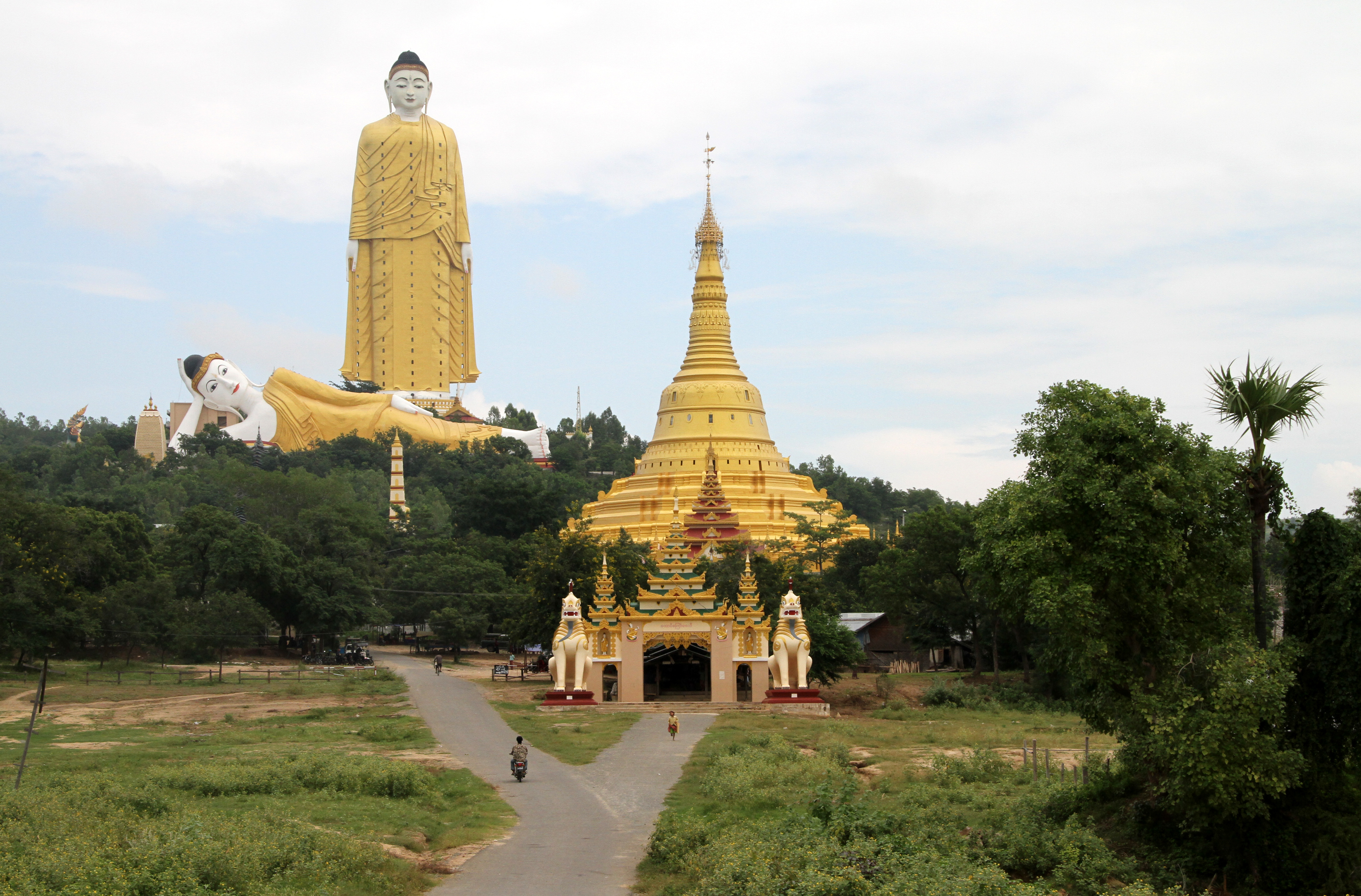 Po Khaung Hill in Monywa in Myanmar.